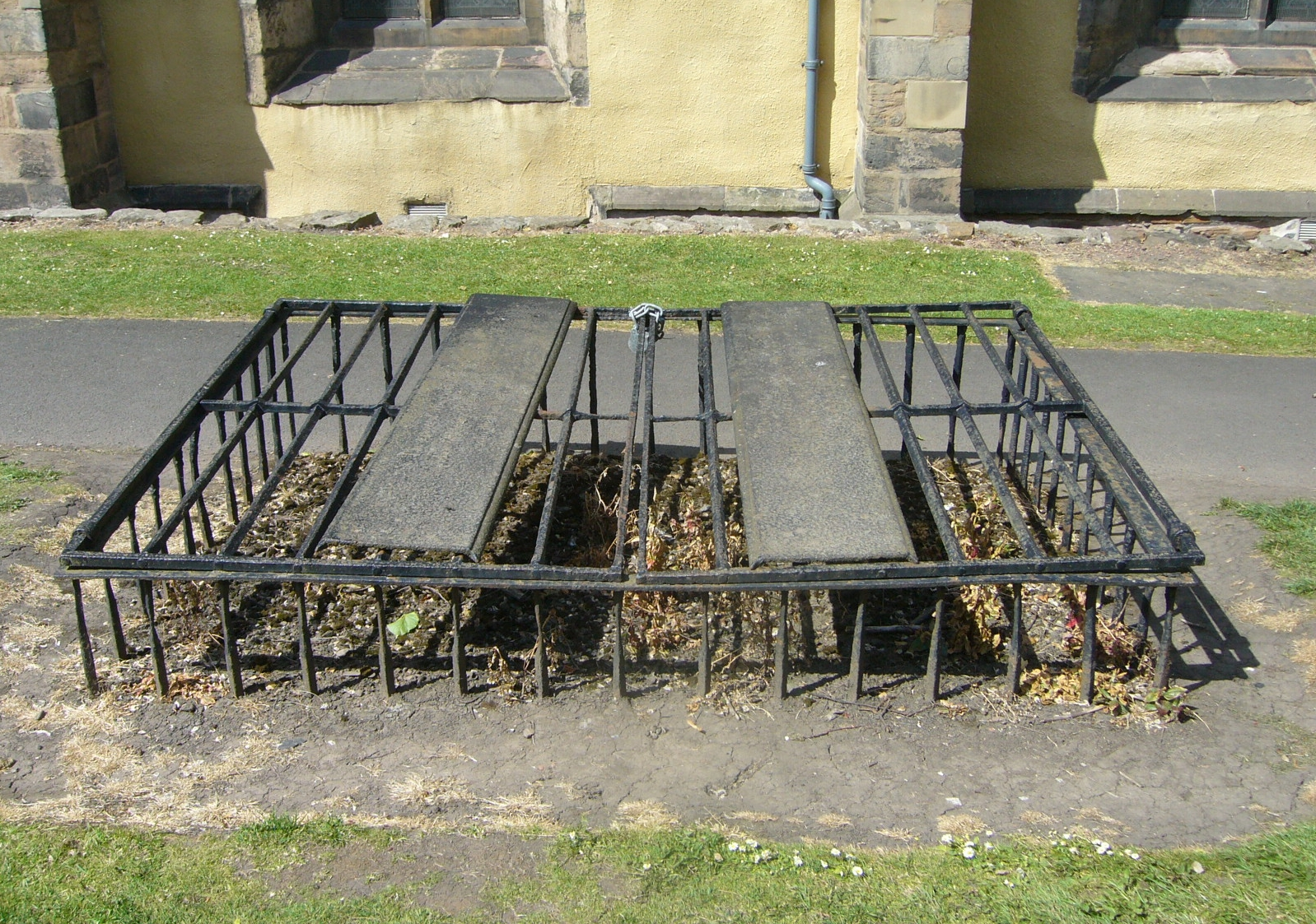 One of two fine specimens of mortsafe in Greyfriars Kirkyard.